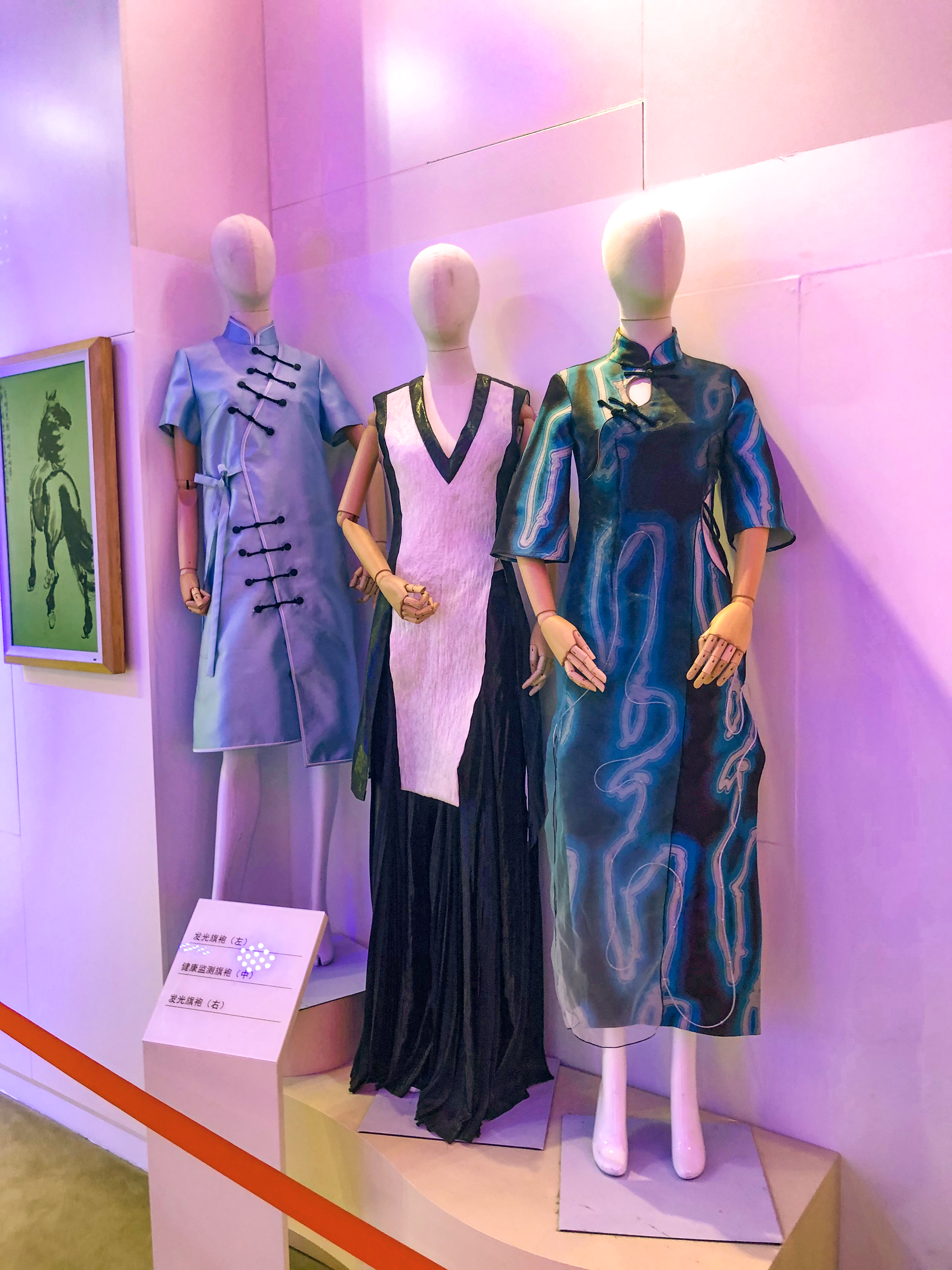 In the end of exhibition... These dresses are made by Donghua University, Shanghai.